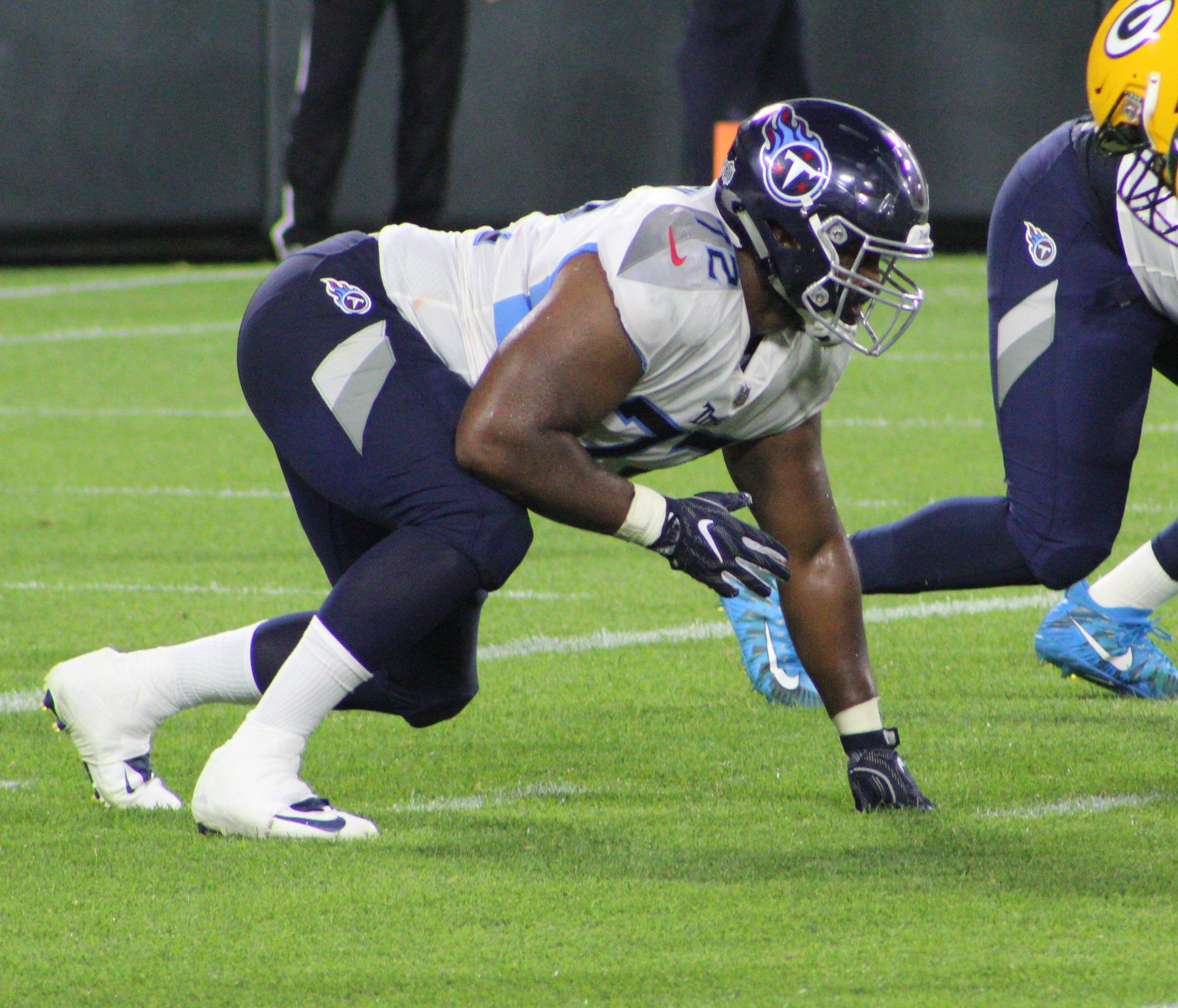 Julius Warmsley, Tennessee Titans at Green Bay Packers (Preseason), August 9, 2018